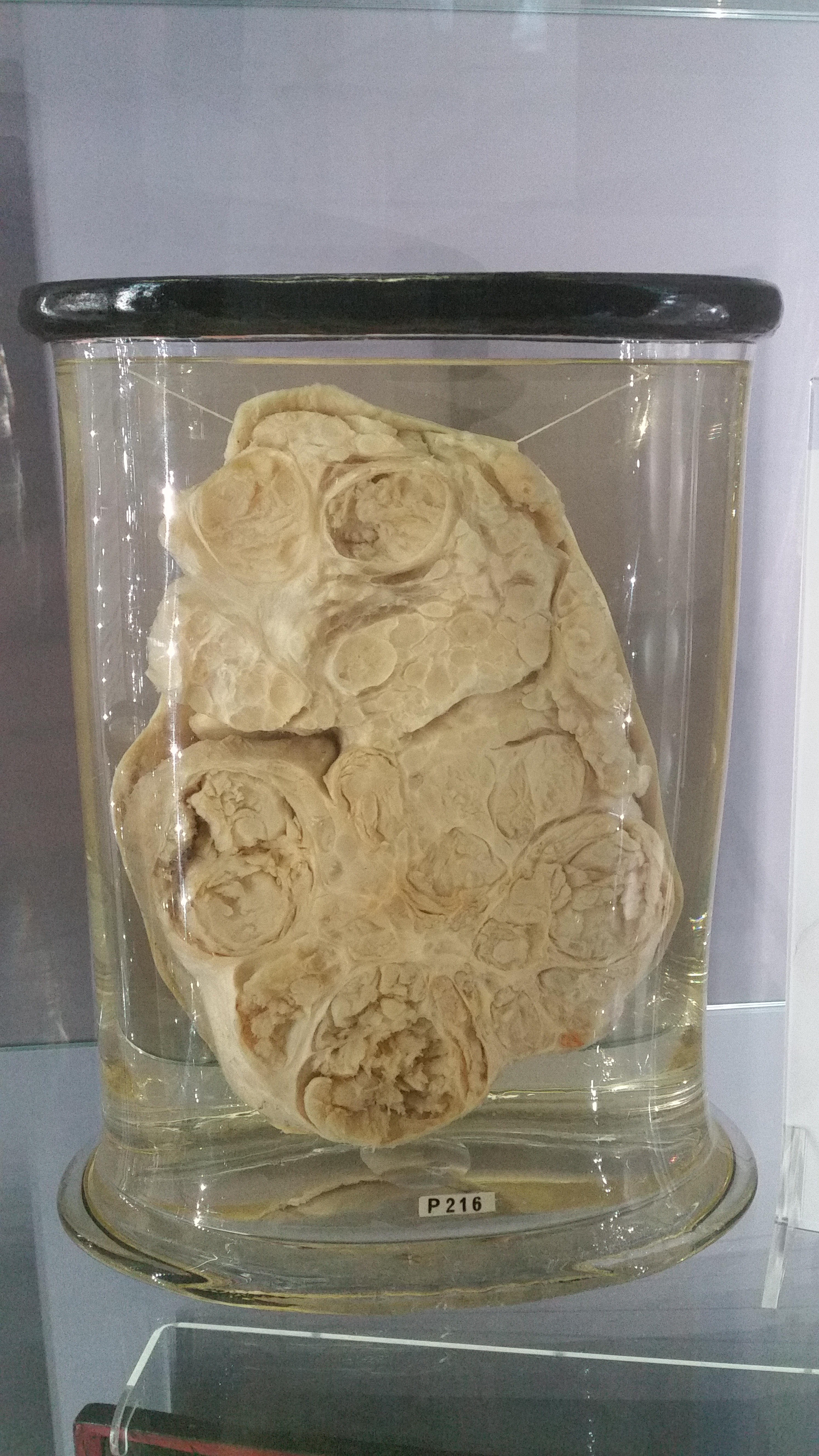 John Burley's parotid gland tumor in the Hunterian Museum at the Royal College of Surgeons of England. These specimen is a part of massive tumour of the parotid gland. It was removed by John Hunter from a 37-year old man called John Burley on 24 October 1785. The tumour weighed over 4 kilograms and took twenty-five minutes to remove. Hunter later noted that Burley 'did not cry out during the whole of the operation'.